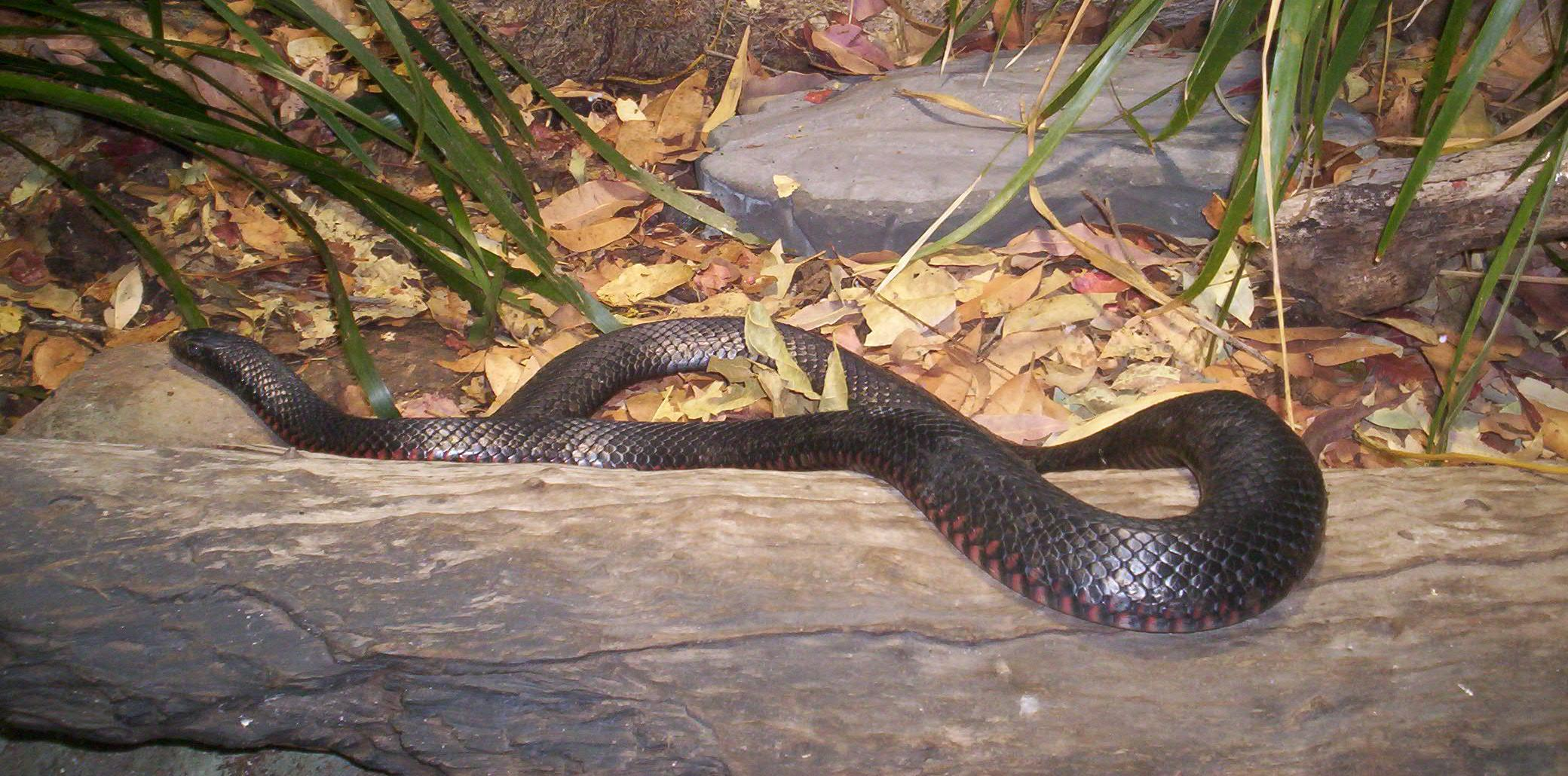 Red-bellied Black Snake.